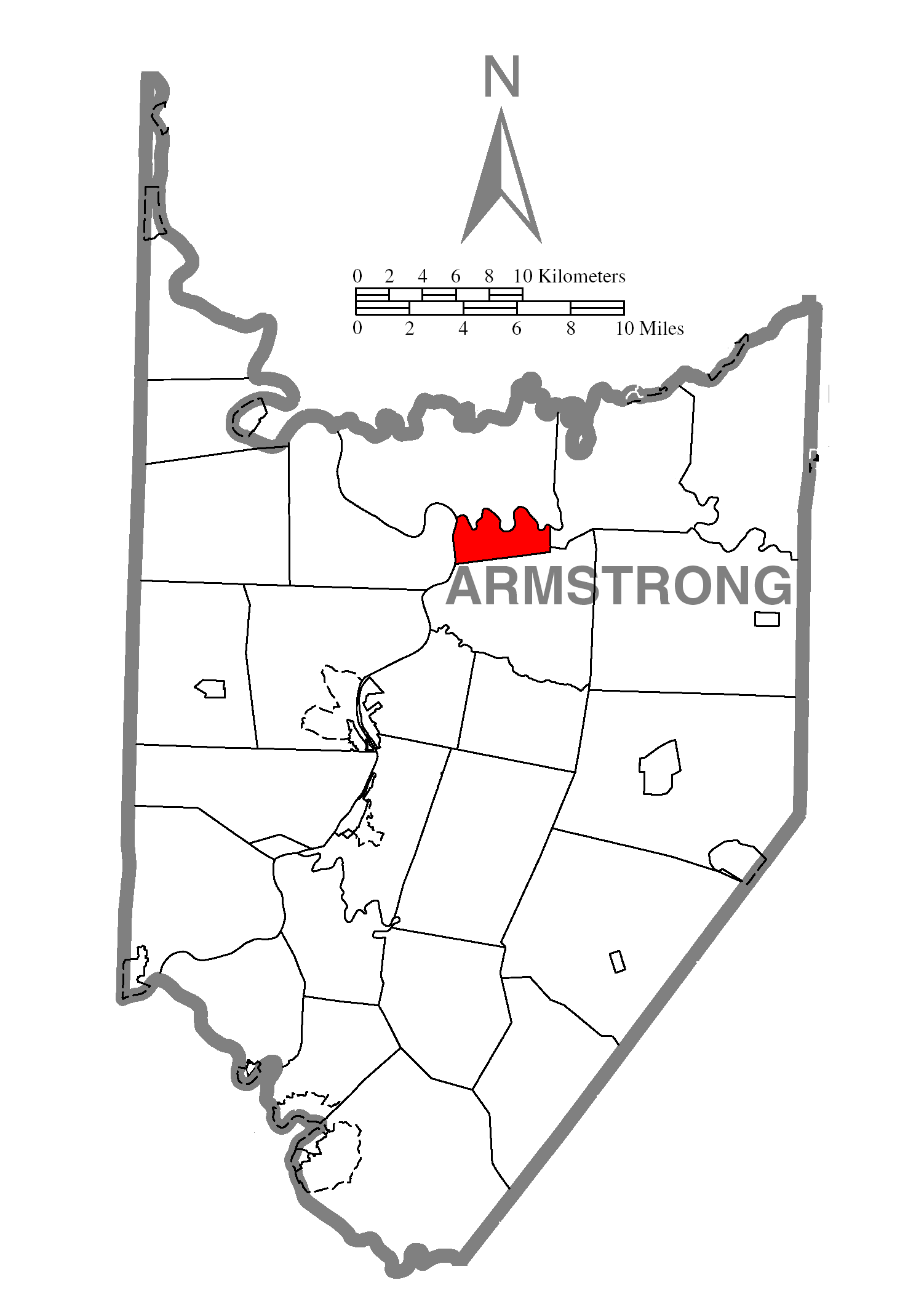 A map of Armstrong County showing Pine Township, Pennsylvania (alternate) highlighted on the map.